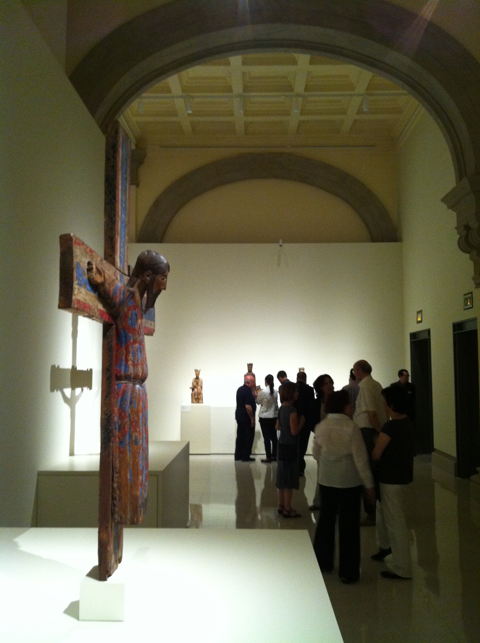 Reopening of the Romanesque collection of MNAC, Museu Nacional d'Art de Catalunya, in Barcelona